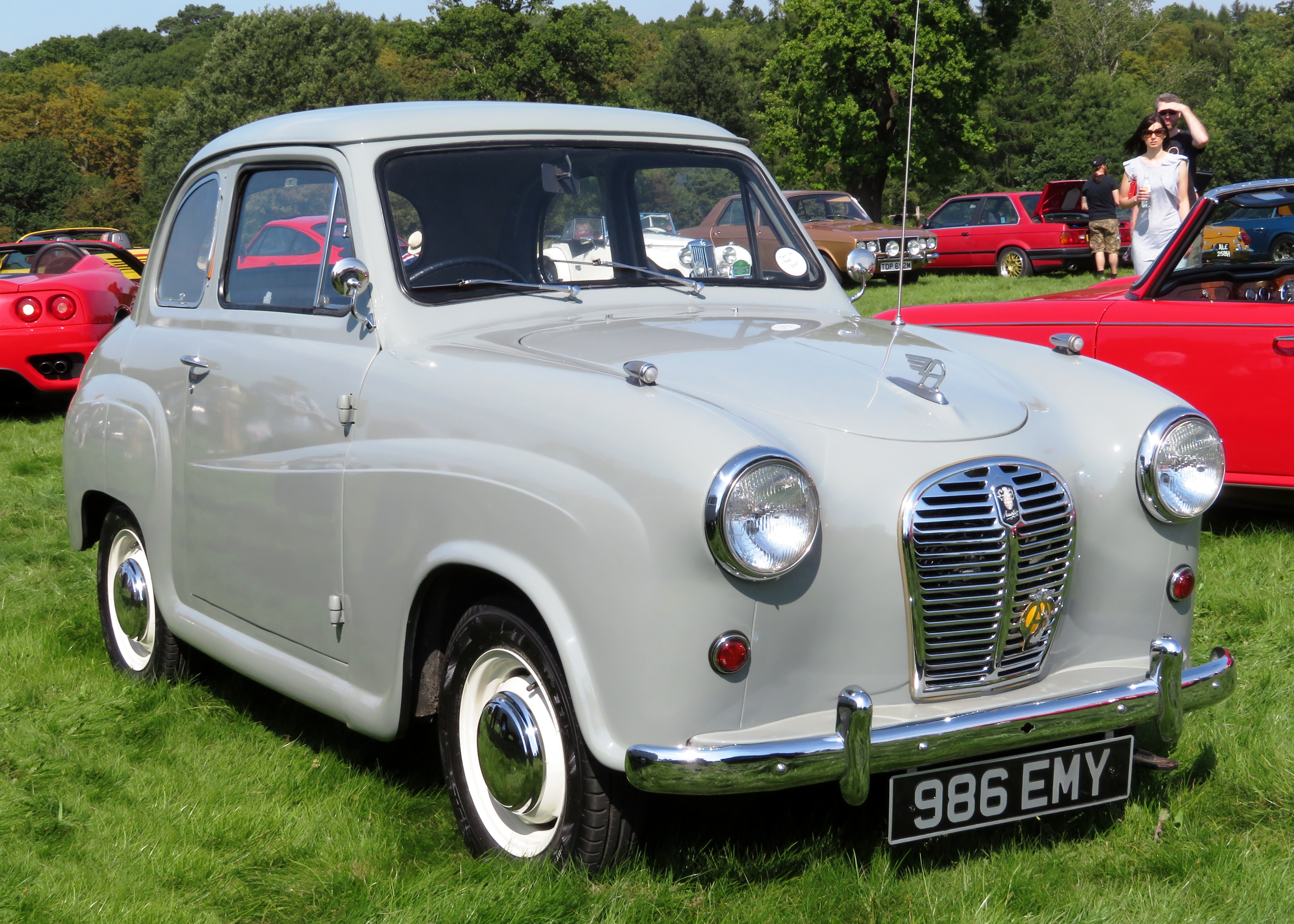 Austin A30 (1955) at Knebworth (2017)